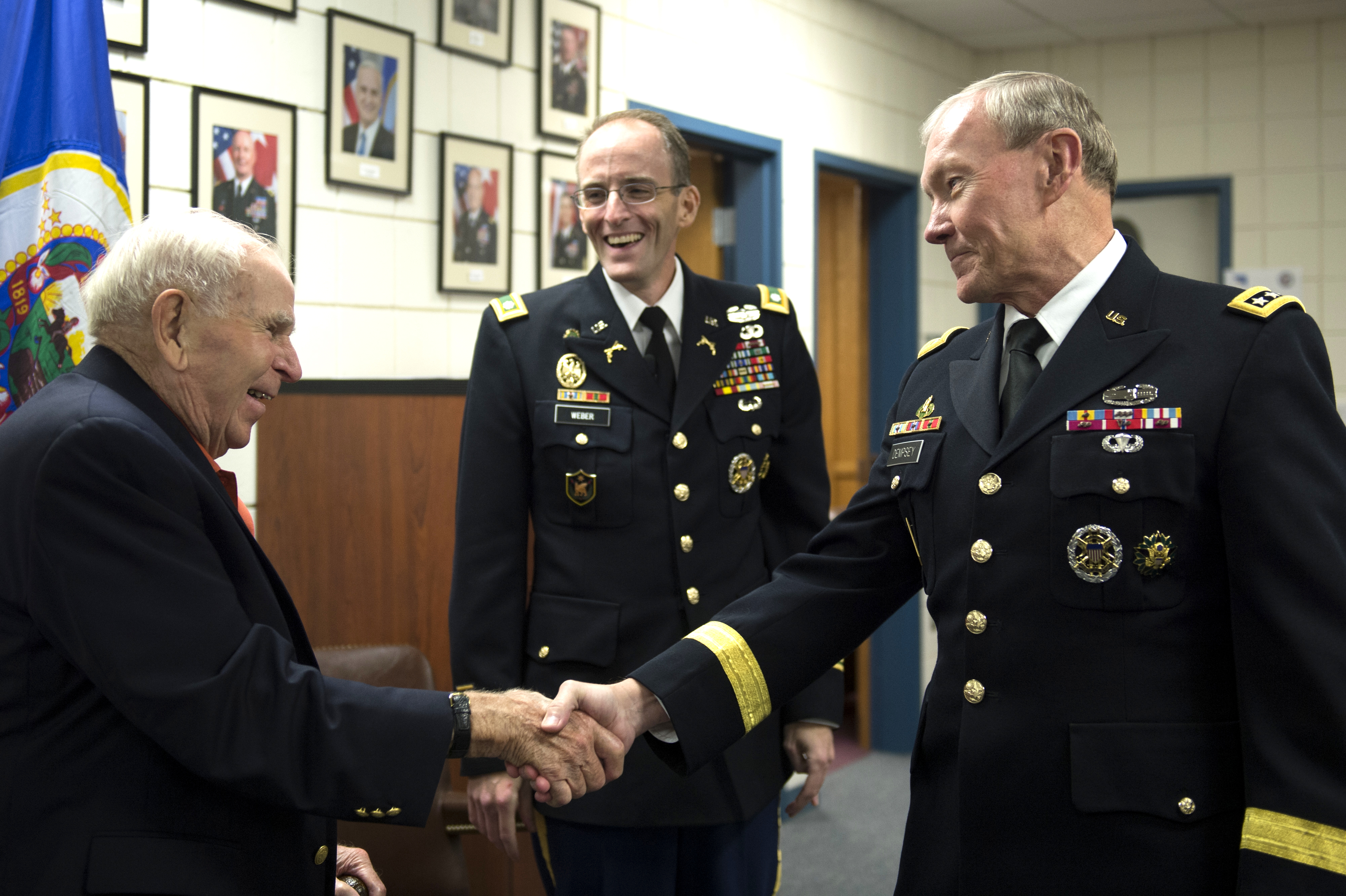 Retired Army Gen. John W. Vessey Jr., left, who served as the 10th chairman of the Joint Chiefs of Staff, greets Army Gen. Martin E. Dempsey, right, the 18th chairman of the Joint Chiefs of Staff, at the Minnesota National Guard Armory in Rosemount, Minn., Aug. 16, 2012.